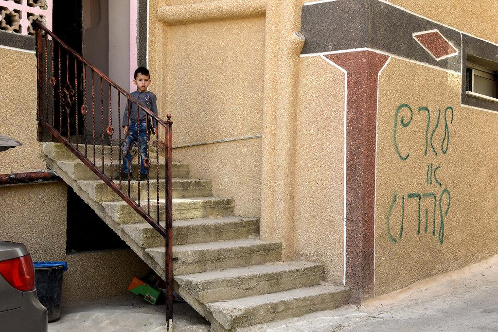 “Kill or deport.” Graffiti settlers spray-painted in Hebrew on the wall of a home in a-Sawiyah, Nablus District. Photo by Salma a-Deb’i, B’Tselem, 18 April 2018.